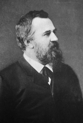 Majkov Leonid Nikolaevich (1839—1900)- the historian of the Russian literature, the bibliographer, the ethnographer.